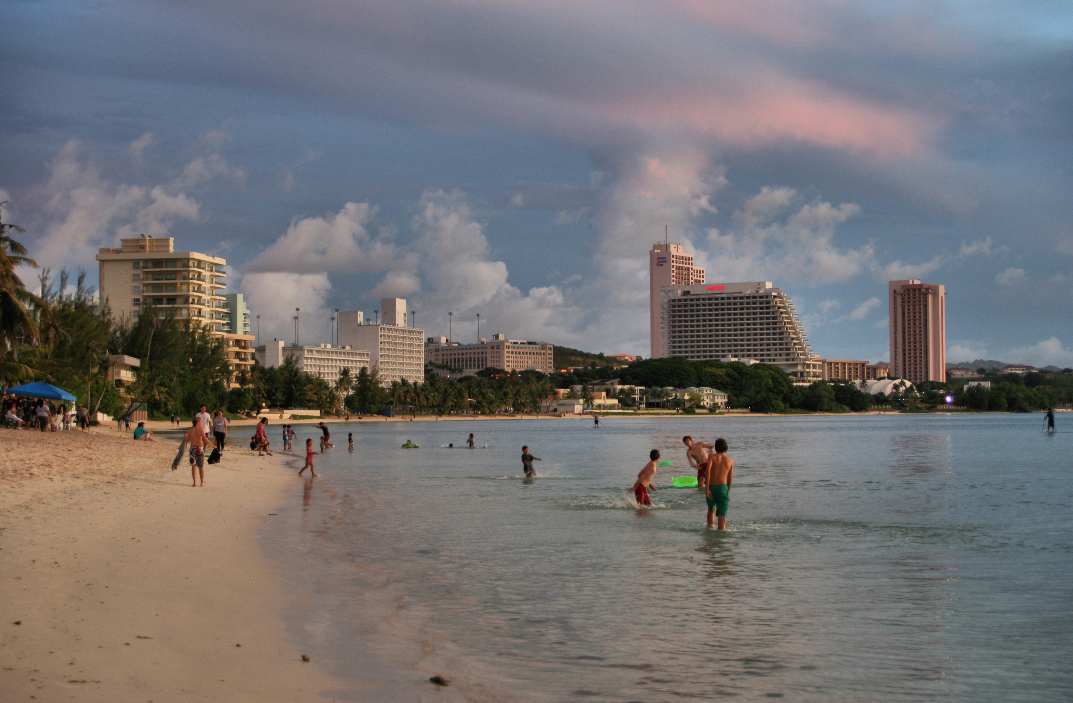 Tumon bay beach in Guam.